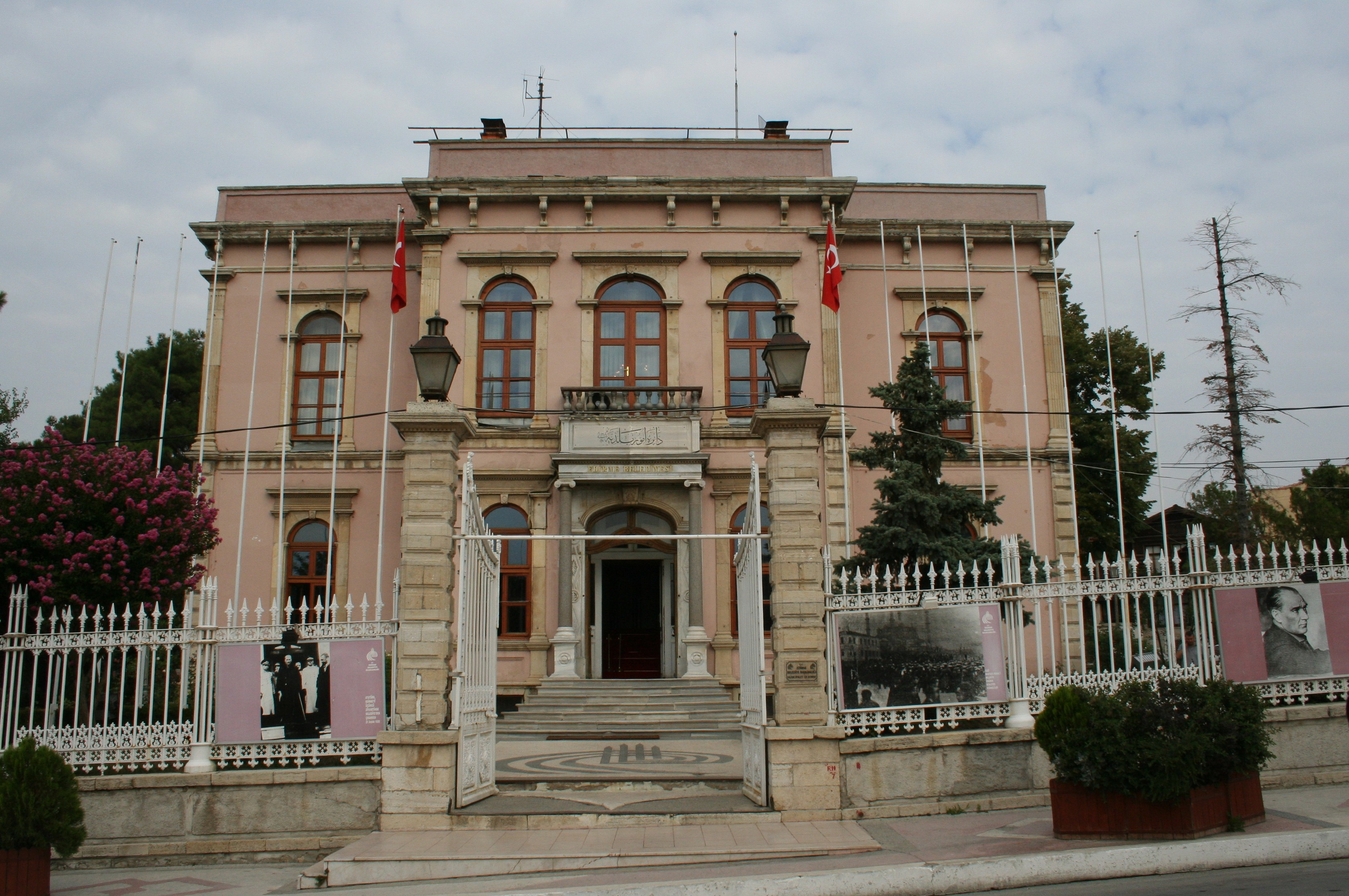 Town hall of Edirne, Turkey